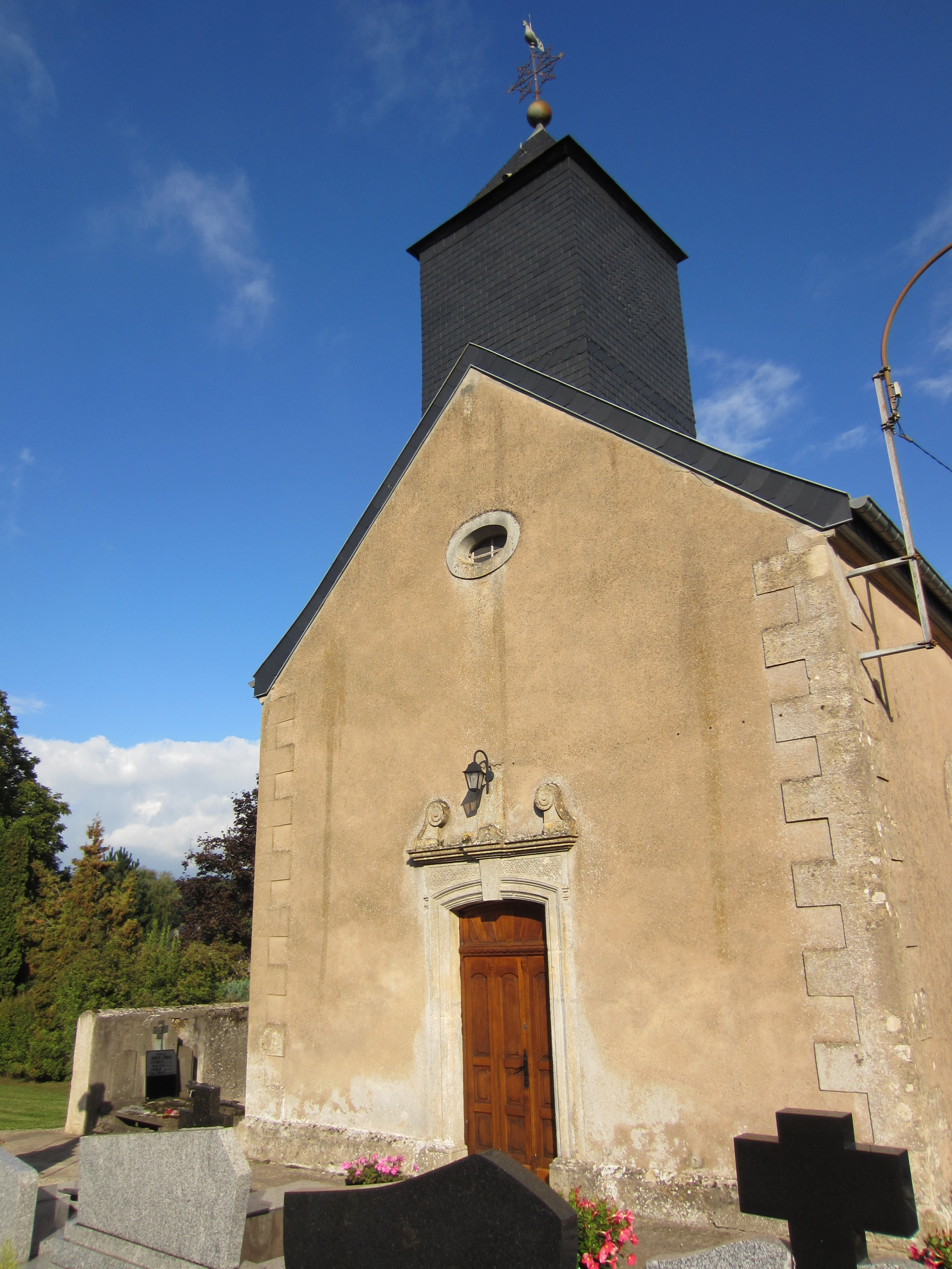 Description chapelle Molvange Date19 September 2011Sourcemon appareil photoAuthorAimelaimePermission (Reusing this file) chapelle Molvange